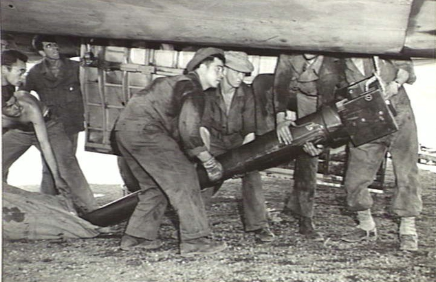 The only 105mm M3A1 howitzer used in the Battle for Buna-Gona is unloaded through the bomb bay doors of the Boeing B17 Flying Fortress used to transport it New Guinea from Australia. The aircraft also brought spare parts, a tractor and ammunition and the gun crew.